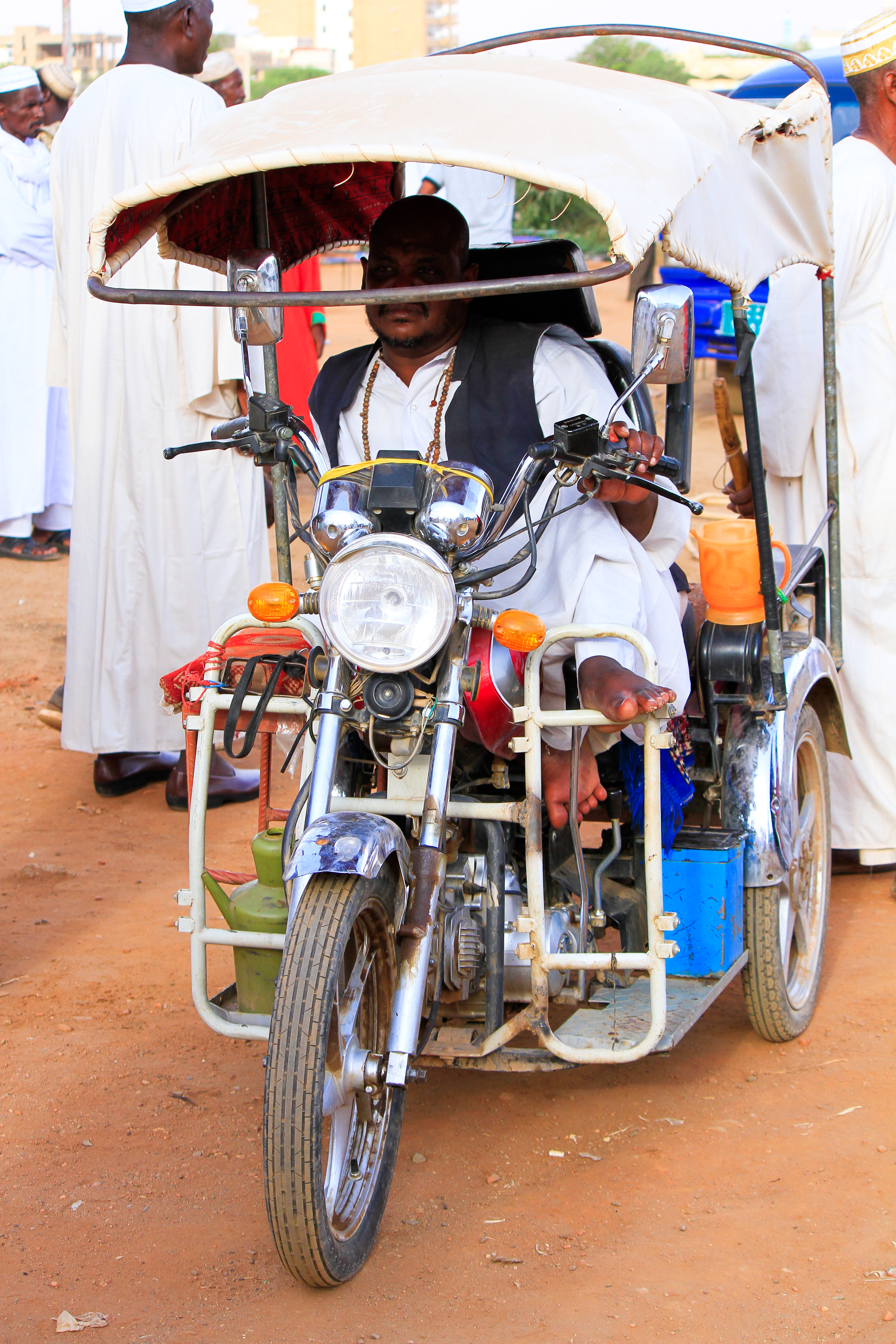 One man present in the Sufi Zikr at tombs of Sheikh Hamad Nile in Omdurman